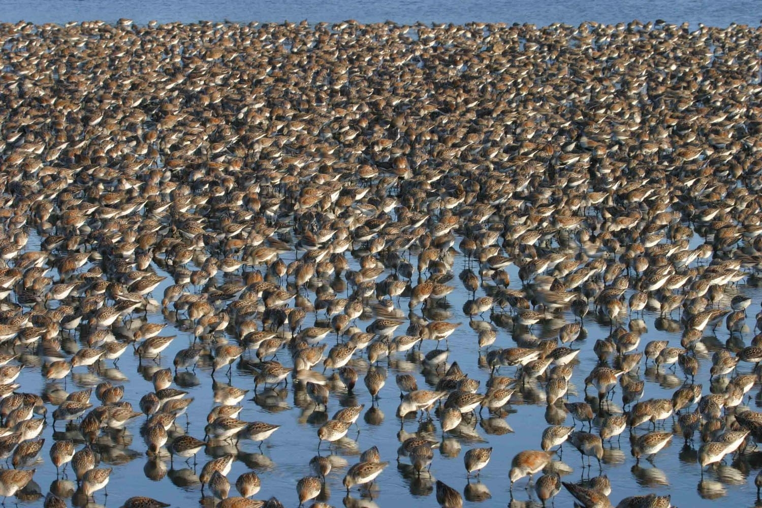 Western sandpipers and dunlins at Bandon Marsh National Wildlife Refuge (Oregon, US)